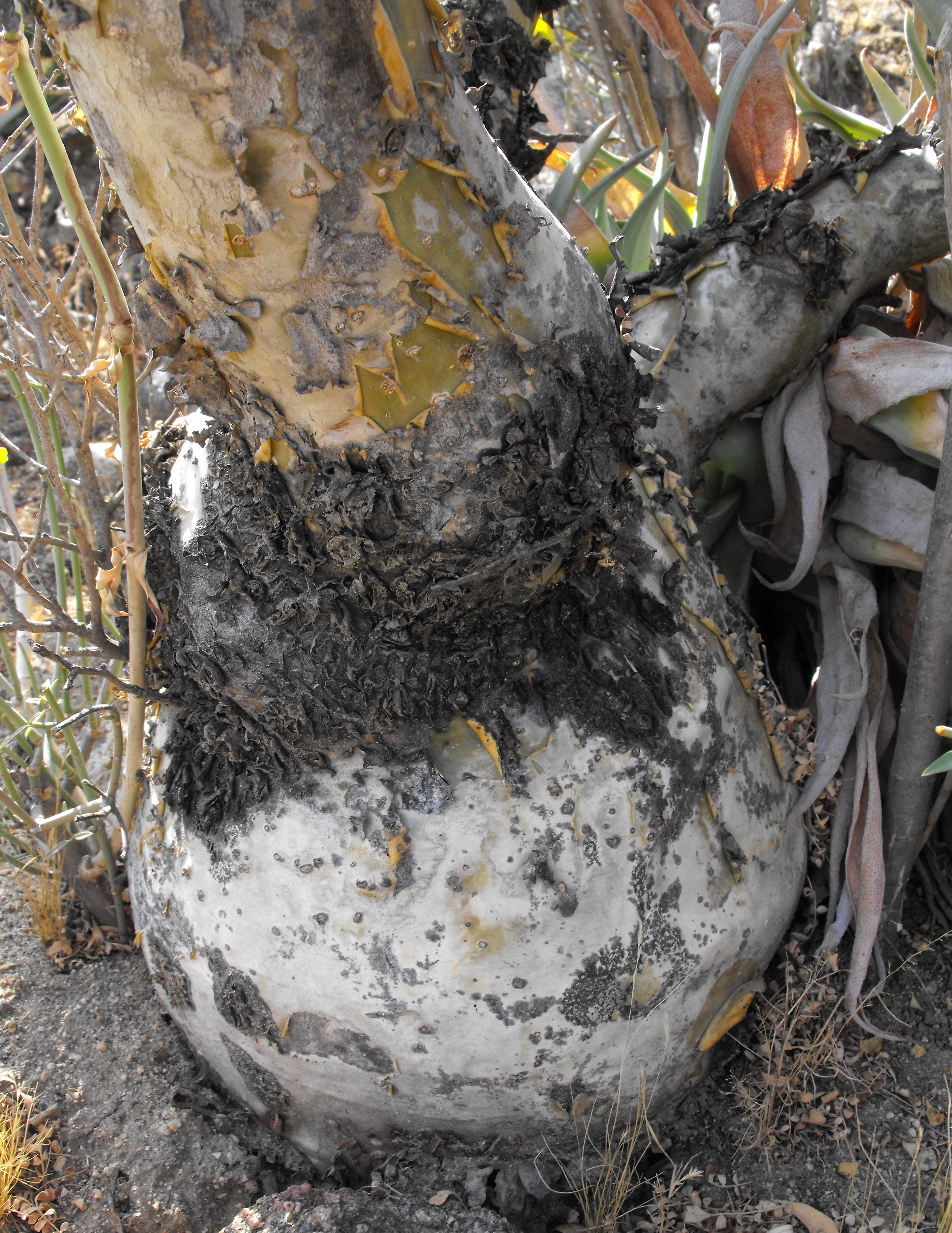 Pachycormus discolor at the San Diego Wild Animal Park, Escondido, California, USA. This is the base of the trunk.